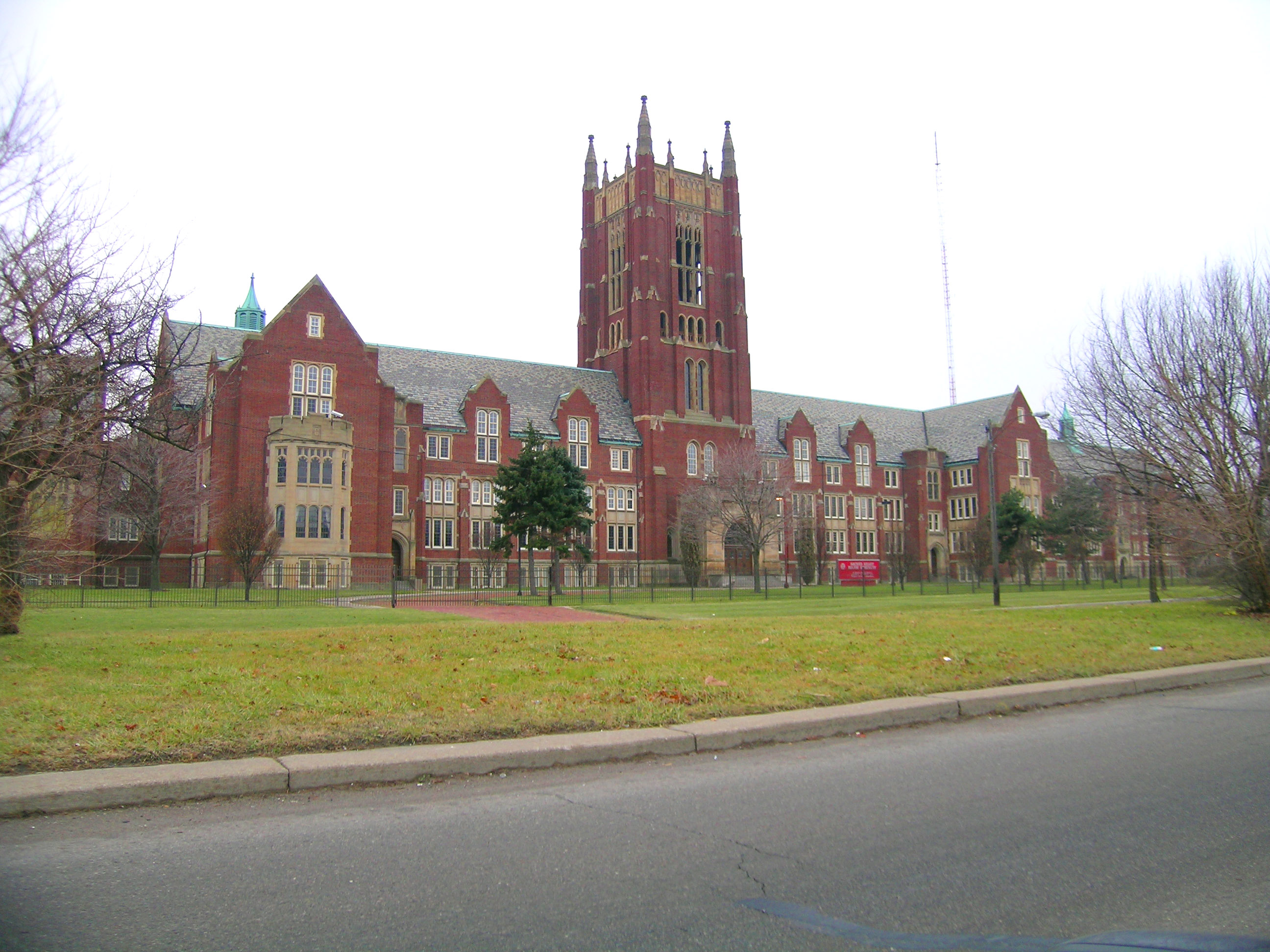 Sacred Heart Major Seminary for use in eponymous article